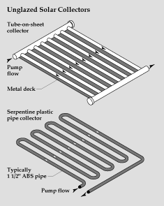 (235 × 295 pixel, file size: 9 KB, MIME type: image/gif) This picture was provided as public domain by the US Dept. of Energy